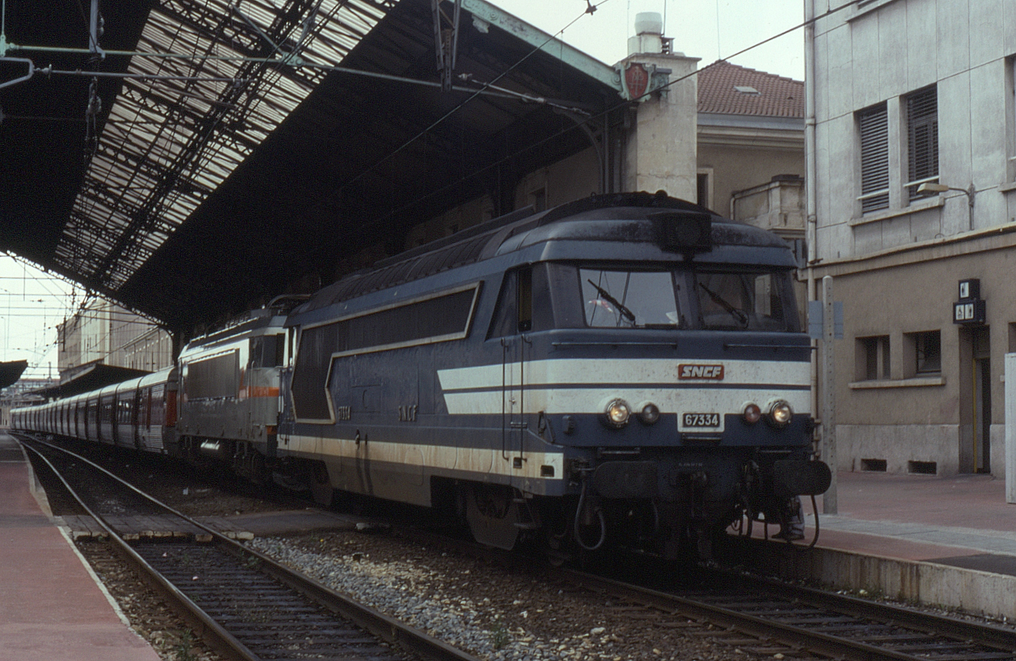 The "Catalan Talgo" ran for many years from Barcelona to Genève (Geneva) as a useful daytime service. Although only a short section of the route was on the broad Spanish gauge, the workings were formed of Talgo stock which had its wheel sets adjusted at the border station of Port Bou. Haulage across France over the years was assigned to various classes of loco. By the early 1990s, a small batch of BB7200s were adapted to work the train. However, the section from Valence through to Chambéry at the time was non-electrified. As such, a BB67300 was diagrammed to drag the Talgo set and electric loco. From Chambéry through to Genève the BB7200 would continue on its own. As Talgo stock had a diesel electric generator for train heating and on-board supplies this unusual operation had no effect on passenger comfort even on a hot day. Seen at Valence-Ville on 5 July 1993, BB67334 has coupled up to BB7288 for the run through to Chambéry. Train EC73 08:45 Barcelona Sants to Genève. Nowadays the Talgo operation is reduced to a shorter working on the French side running as far as Montpellier. Passengers now change here for a TGV through to Genève.